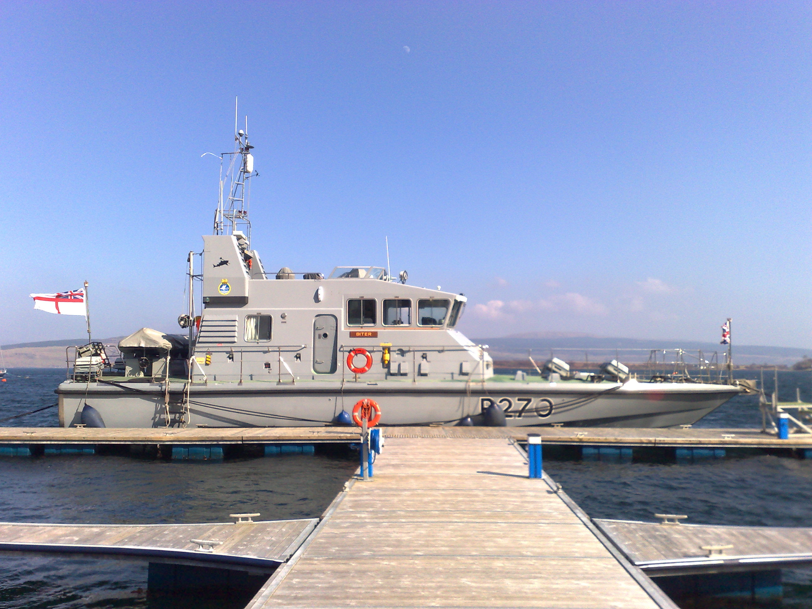 HMS Biter berthed in Tobermory in April 2009